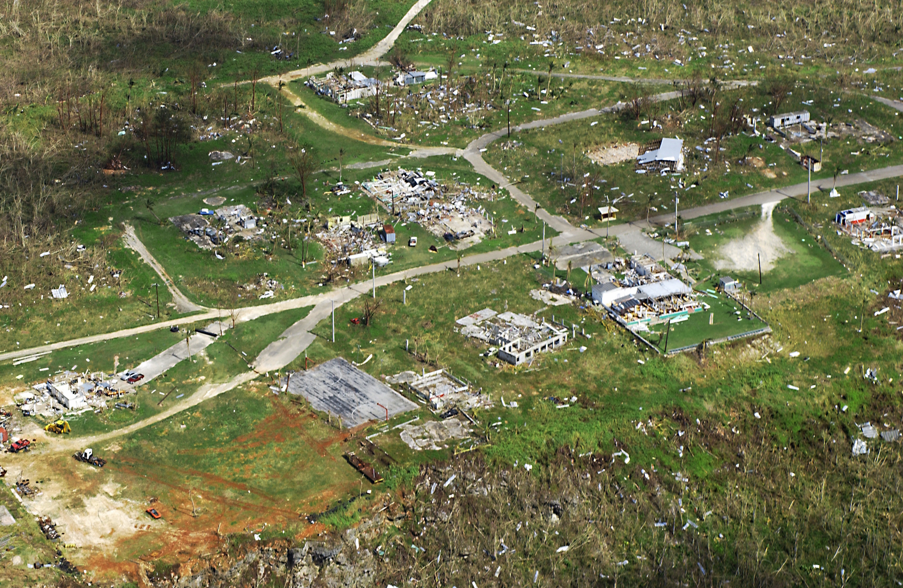 The island of Rota received a Presidentally declared disaster declaration after receiving widespread damages from Supertyphoon Pongsona.